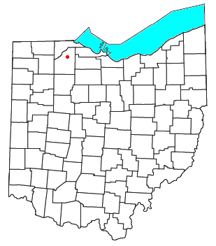 Locator map of the unincorporated community of Dunbridge in Wood County, Ohio, United States.